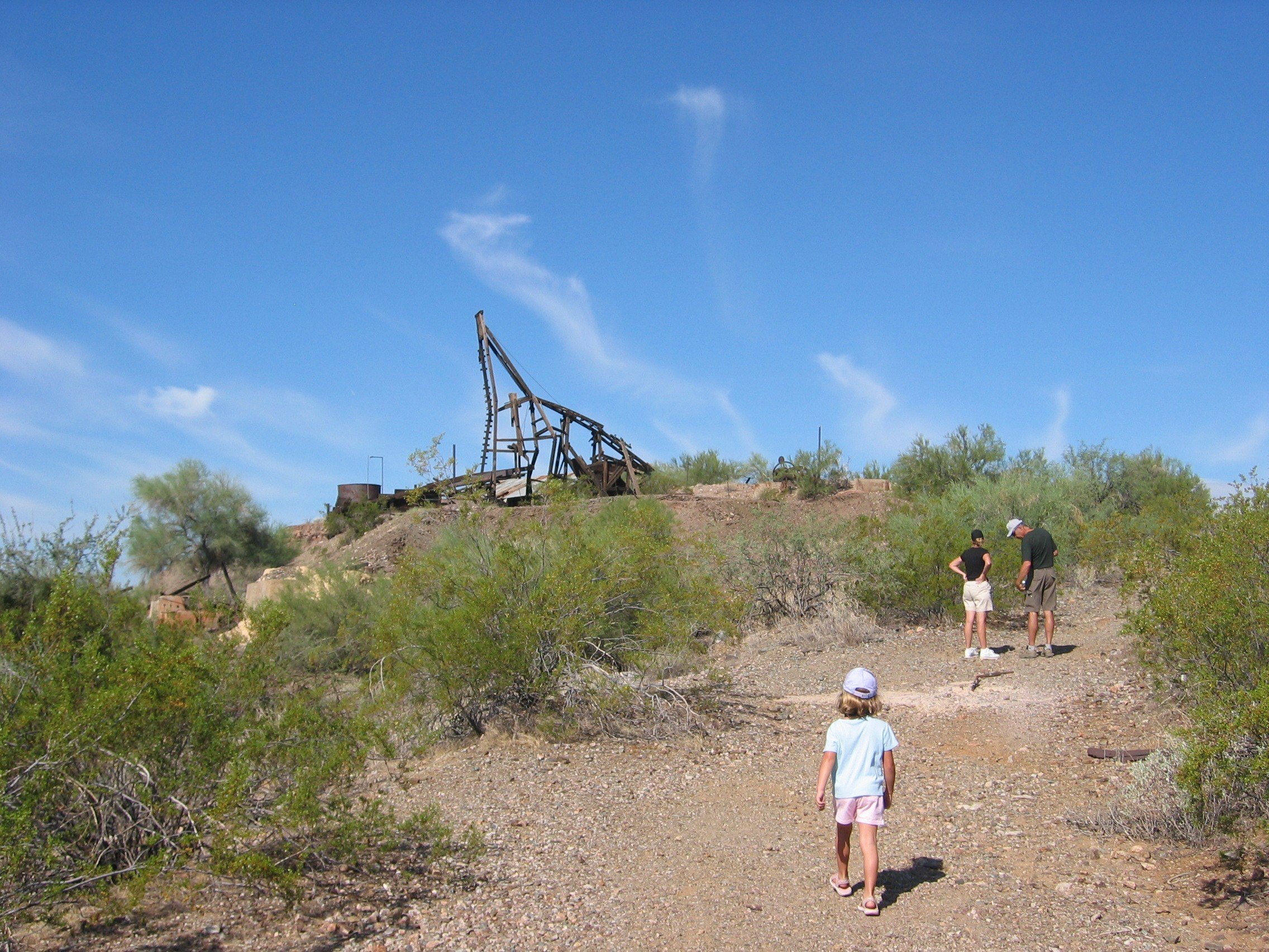 Vulture Mine, Wickenburg, Arizona.